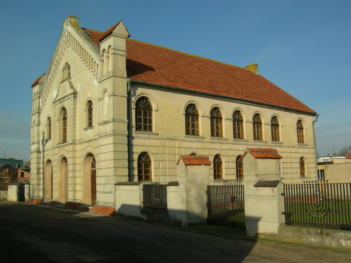 The synagogue of Buk in Voivodeship of Greater Poland